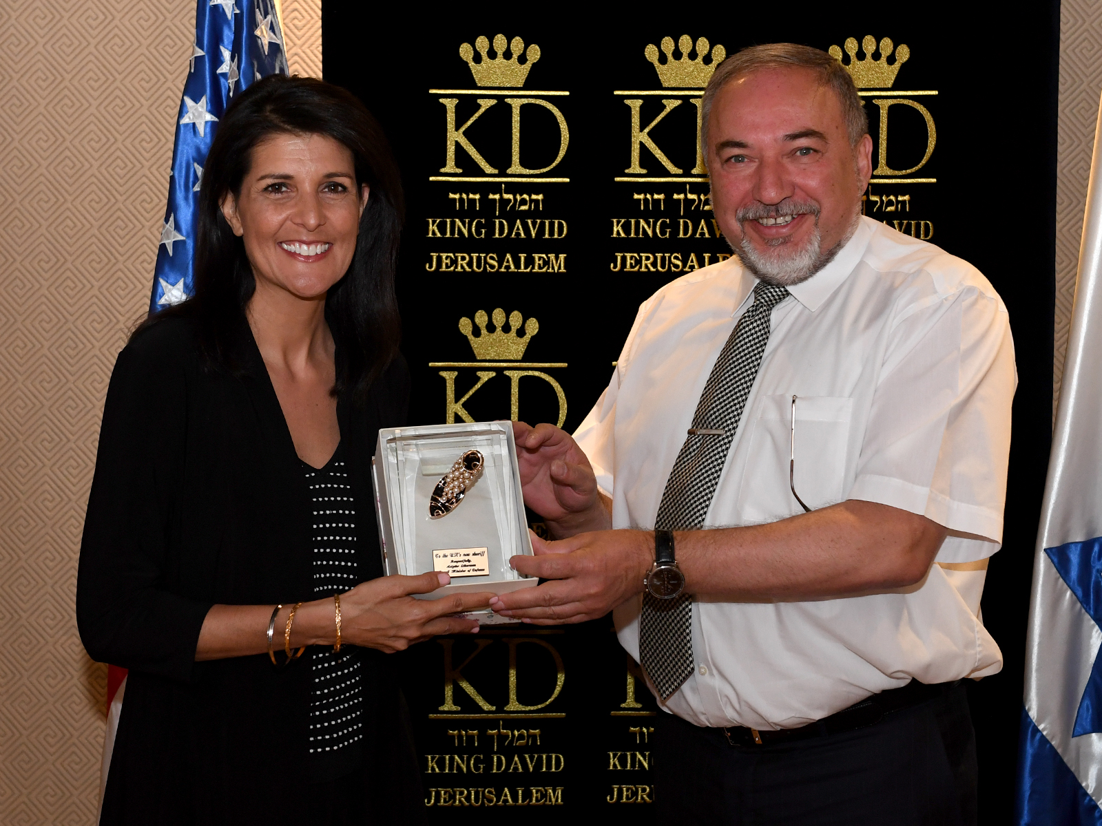 U.S. Permanent Representative to the UN, Ambassador Nikki Haley meets Israeli Minister of Defense Avigdor Lieberman, at the King David Hotel in Jerusalem, June 9, 2017. U.S. Permanent Representative to the UN, Ambassador Nikki Haley meets Israeli Minister of Defense Avigdor Lieberman, at the King David Hotel in Jerusalem, June 9, 2017.